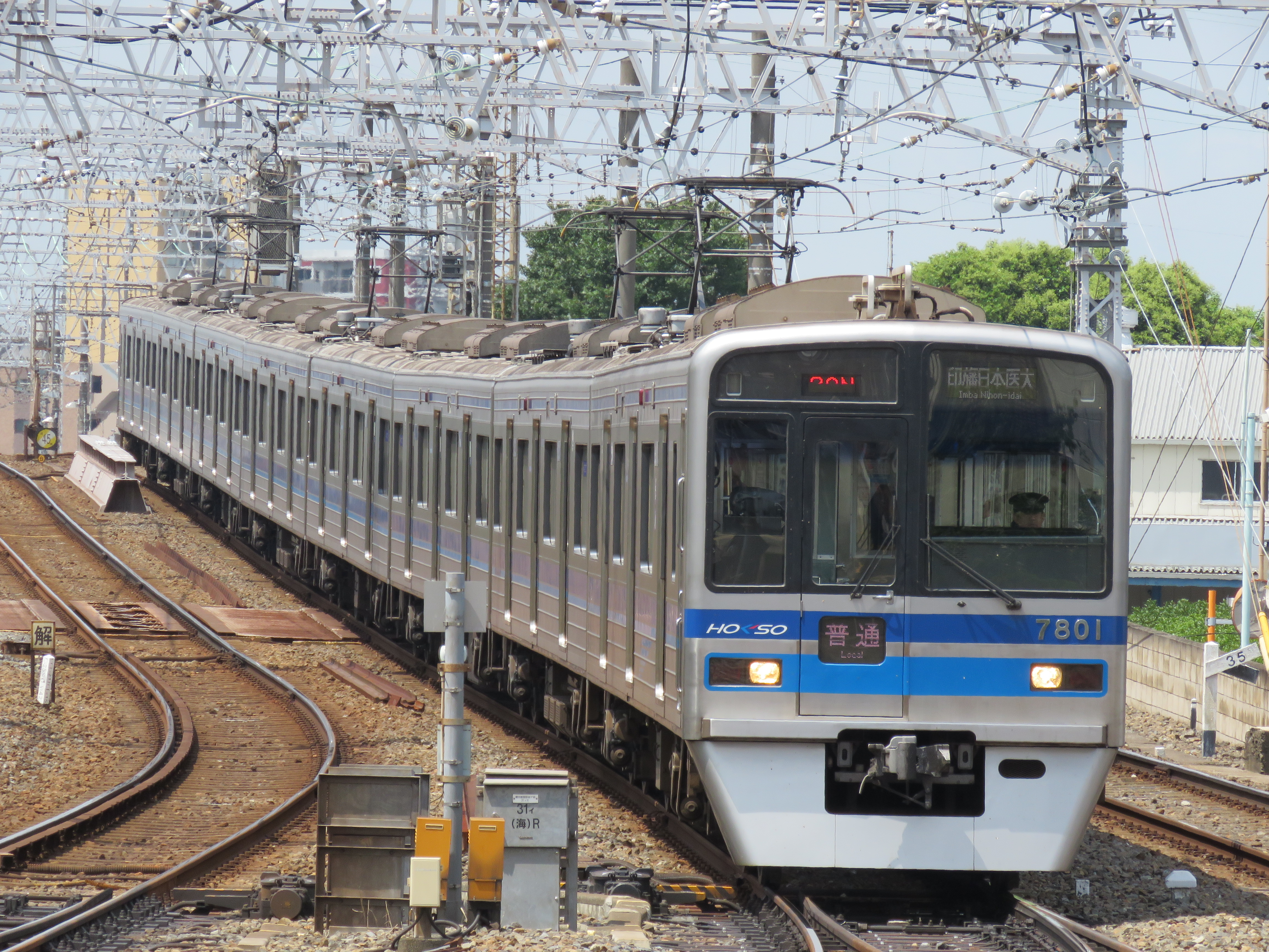 Hokuso Railway 7300 series EMU set 7808 approaching Keisei Takasago Station